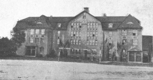 Poland's first merchant Marine Academy in Tczew.